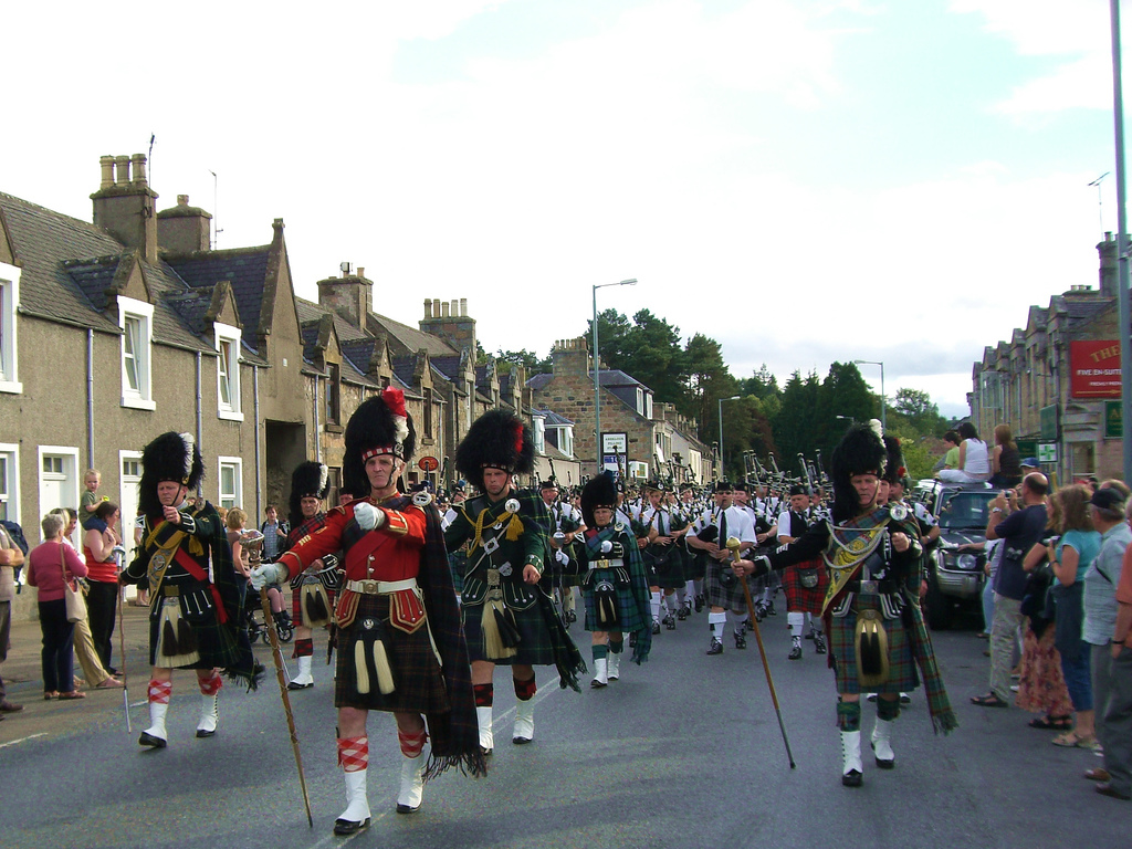 The town of that lovely whiskey - and as it happened of a pretty nice parade. We missed most of the highland games due to a visit at Macallan distillery in Craigellachie. We came just right, though, for a pint with the Scots and the parade! (picture taken by NinaB)